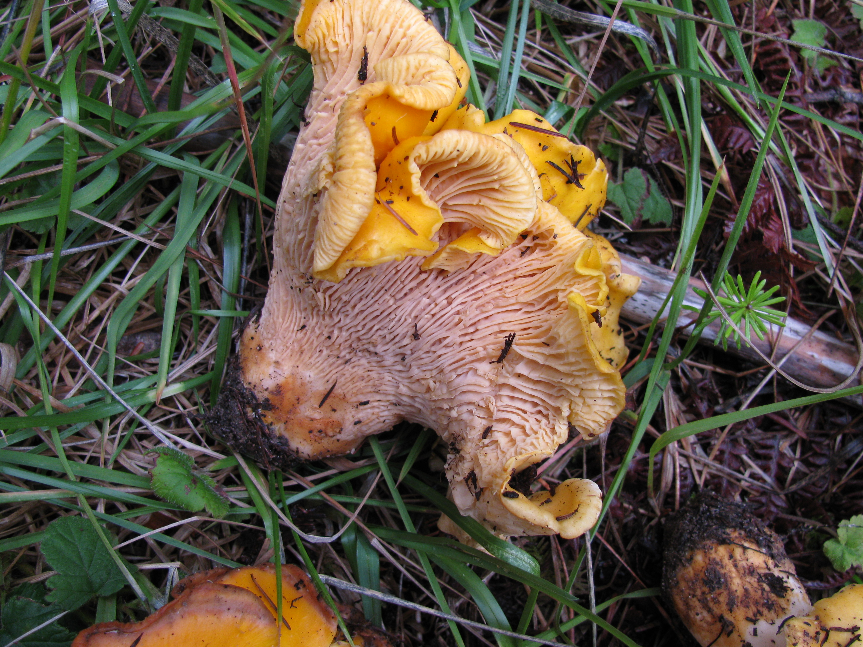 Cantharellus formosus Corner Location: Little River, California, USA For more information about this, see the observation page at Mushroom Observer.